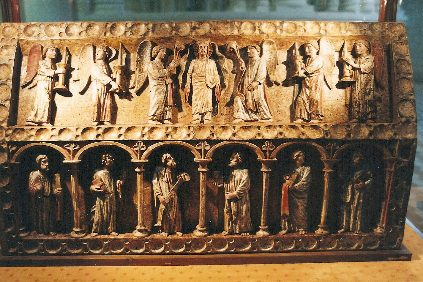 Reliquary chest of Saint Maxentiolus (13th c.) in the Church of Our Lady of Cunault (France).